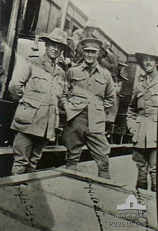 France. August 1916. An informal portrait of Captain John Lelean Cope, chaplain to the 14th Battalion, Captain Williamson and Captain Cox beside a train in France during WWI. Williamson was a notable Australian rules footballer who died later in WWI.